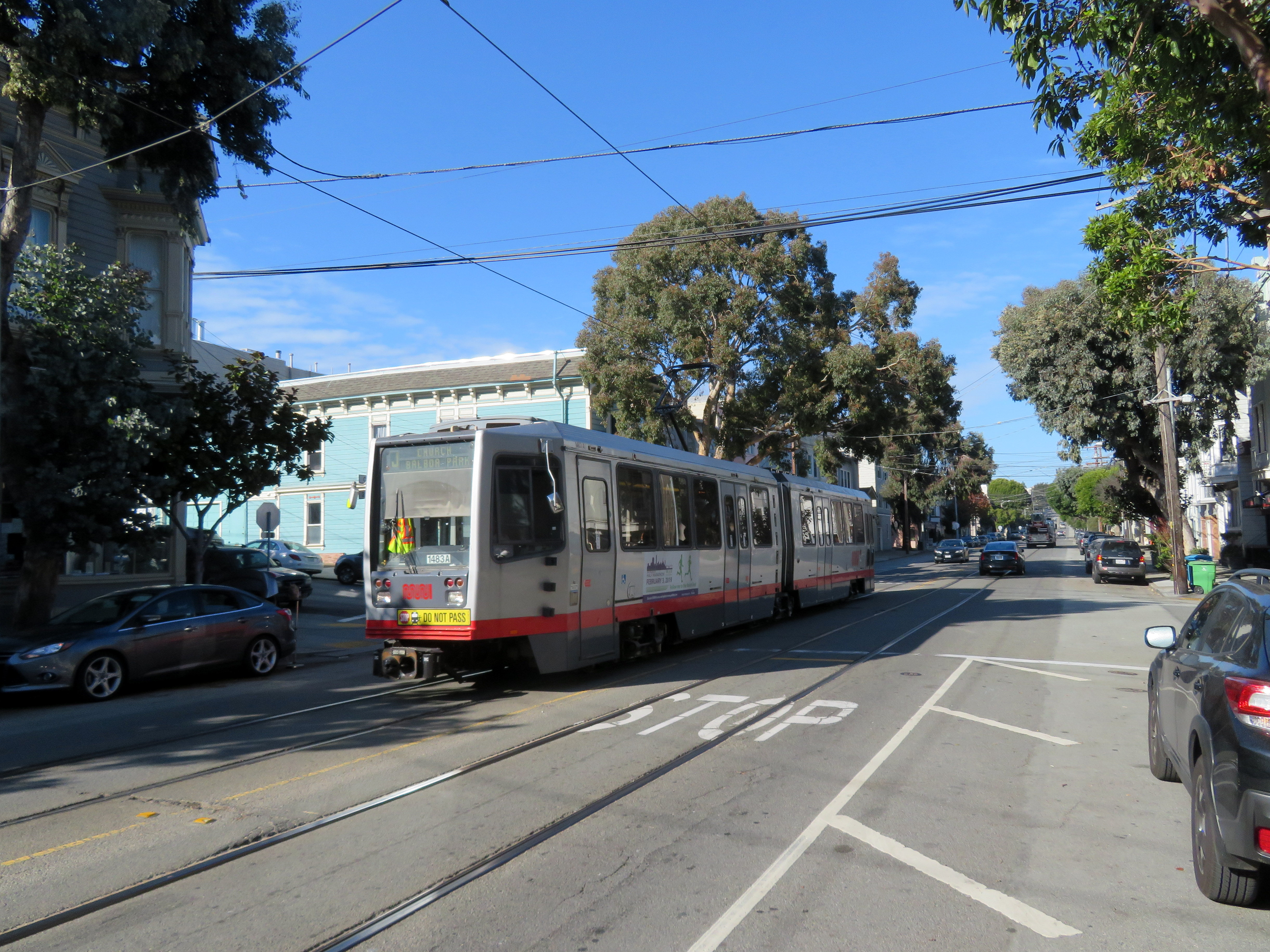 An outbound train viewed from the inbound boarding area at Church and 27th Street in January 2019